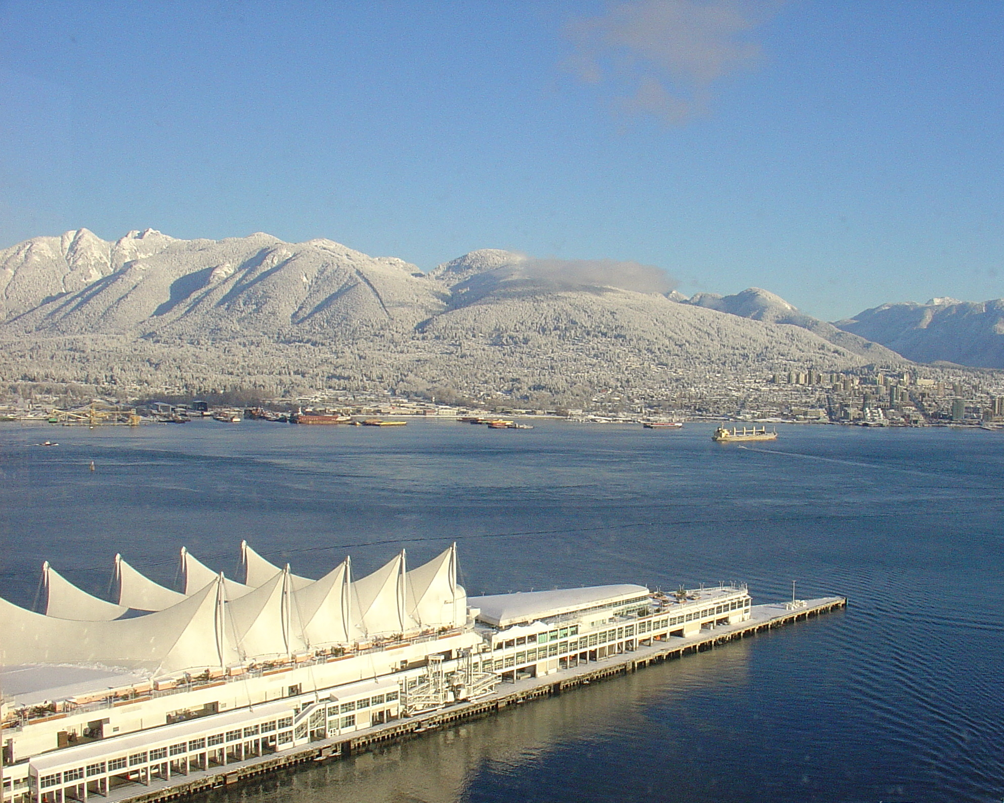 Canada Place is a building situated on the Burrard Inlet waterfront of Vancouver, British Columbia. It is the home of the Vancouver Convention & Exhibition Centre, the Pan Pacific Hotel, and an IMAX 3D theatre, the first in the world. It is also the main cruise ship terminal, where most of Vancouver's famous cruises to Alaska originate. It was constructed for Expo 86 as the pavilion for Canada. It was the only venue for the fair that was not at the main site on the north shore of False Creek.